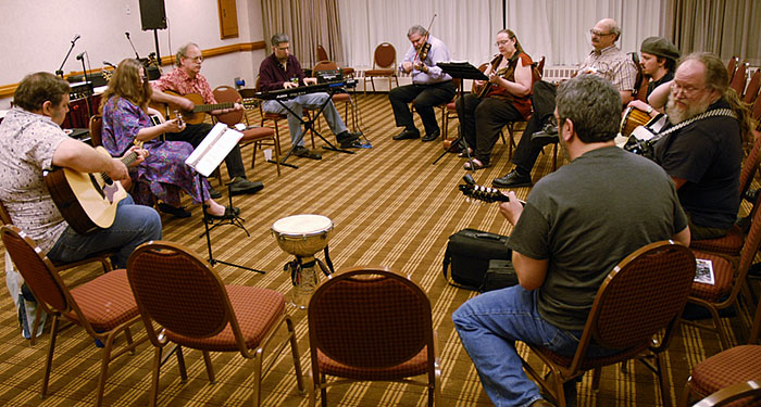 Informal music session (AKA filk circle) at Minicon 41 in Bloomington, Minnesota